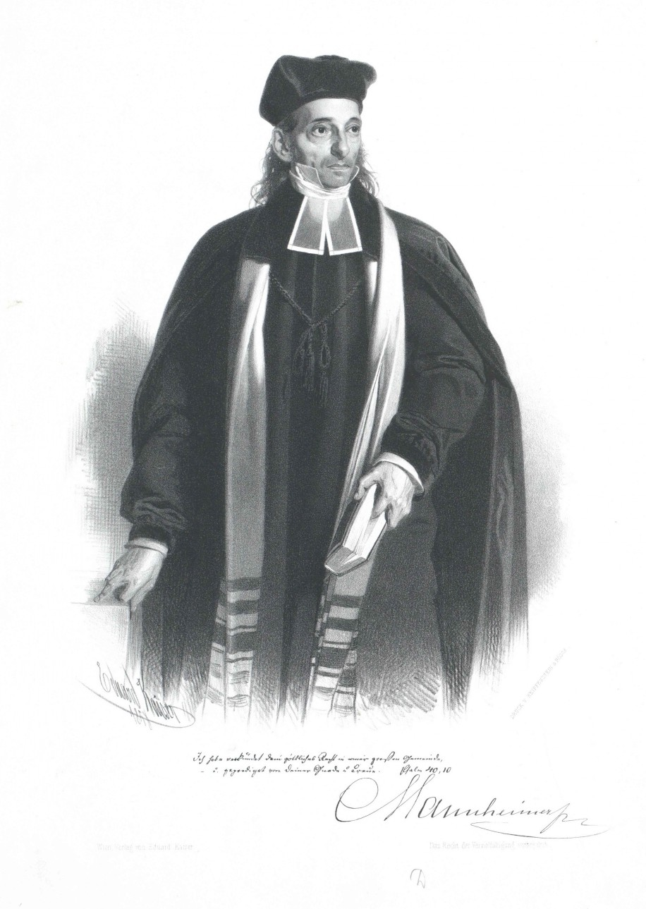 A lithography of Isaac Noah Mannheimer, 1858.